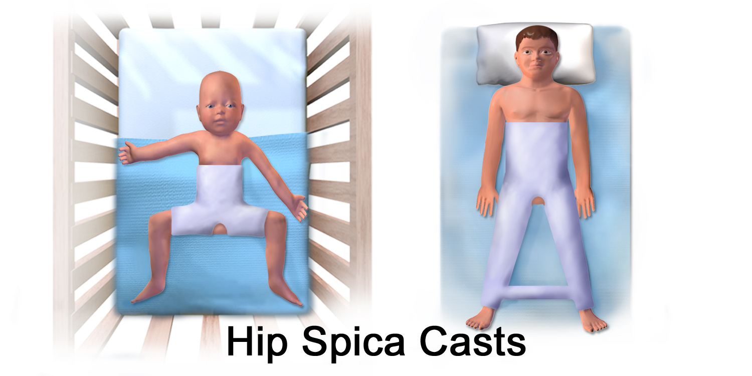 An illustration depicting hip spica casts.